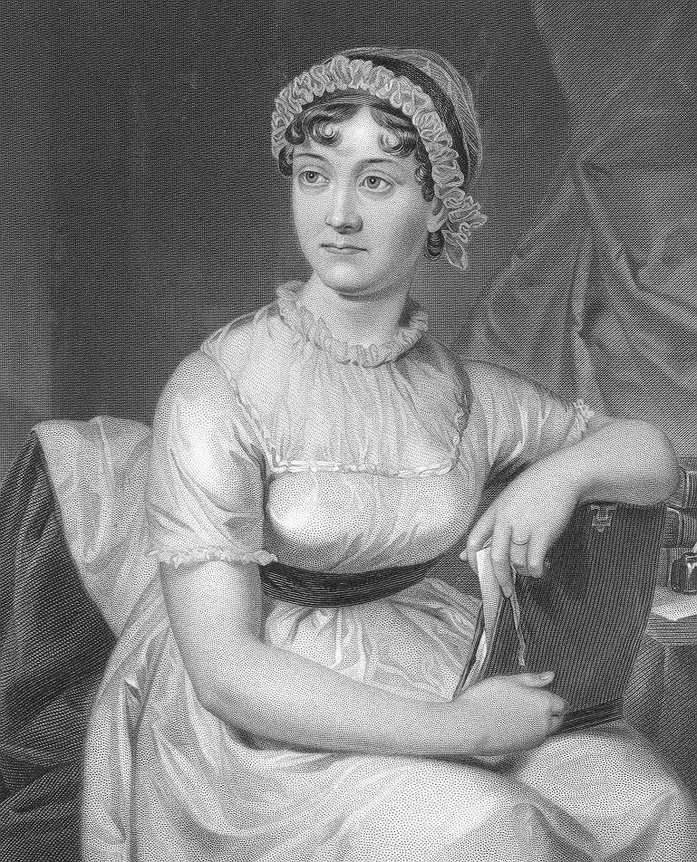 Portrait of Jane Austen